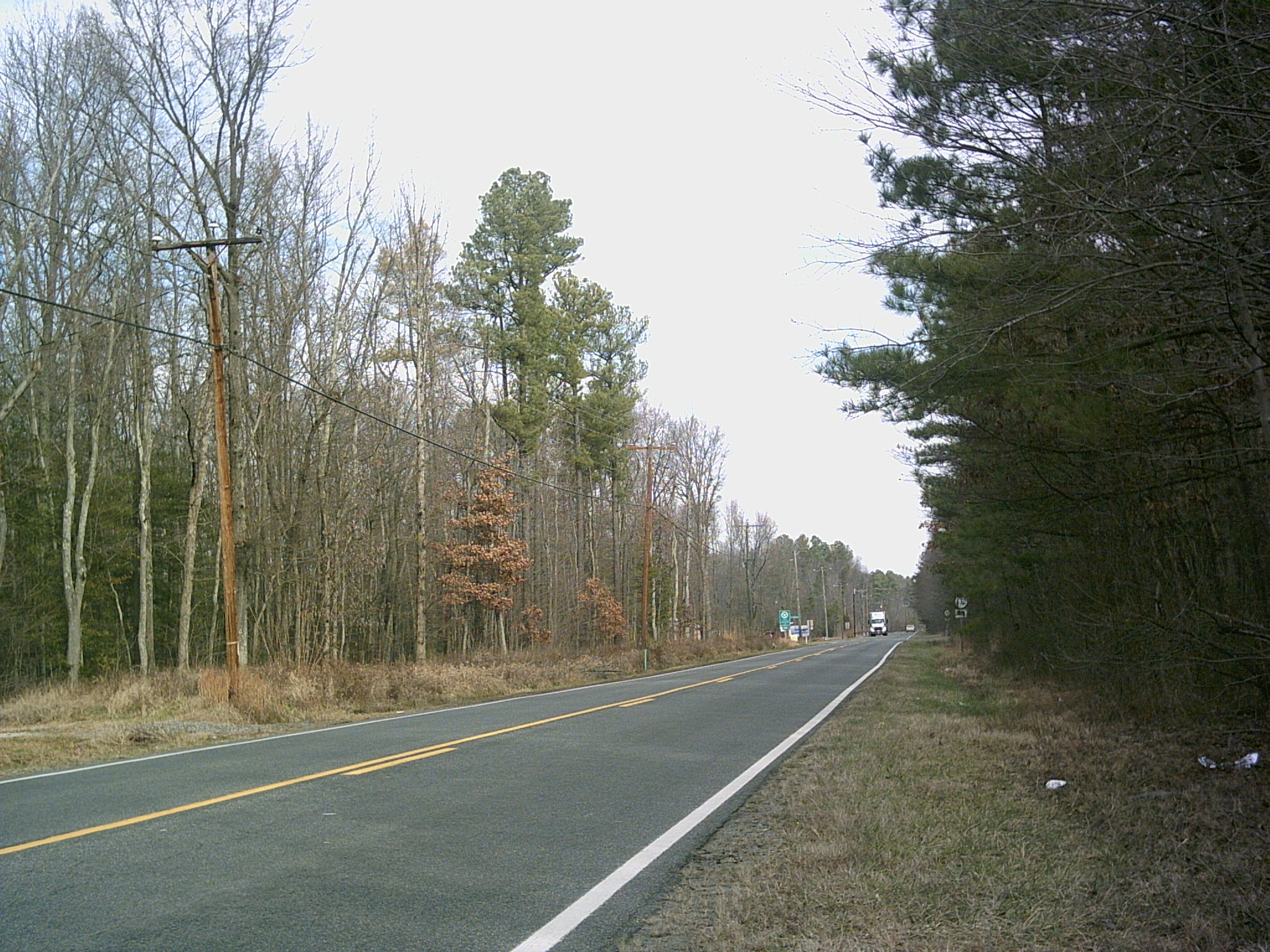 Image taken by me for Wikipedia